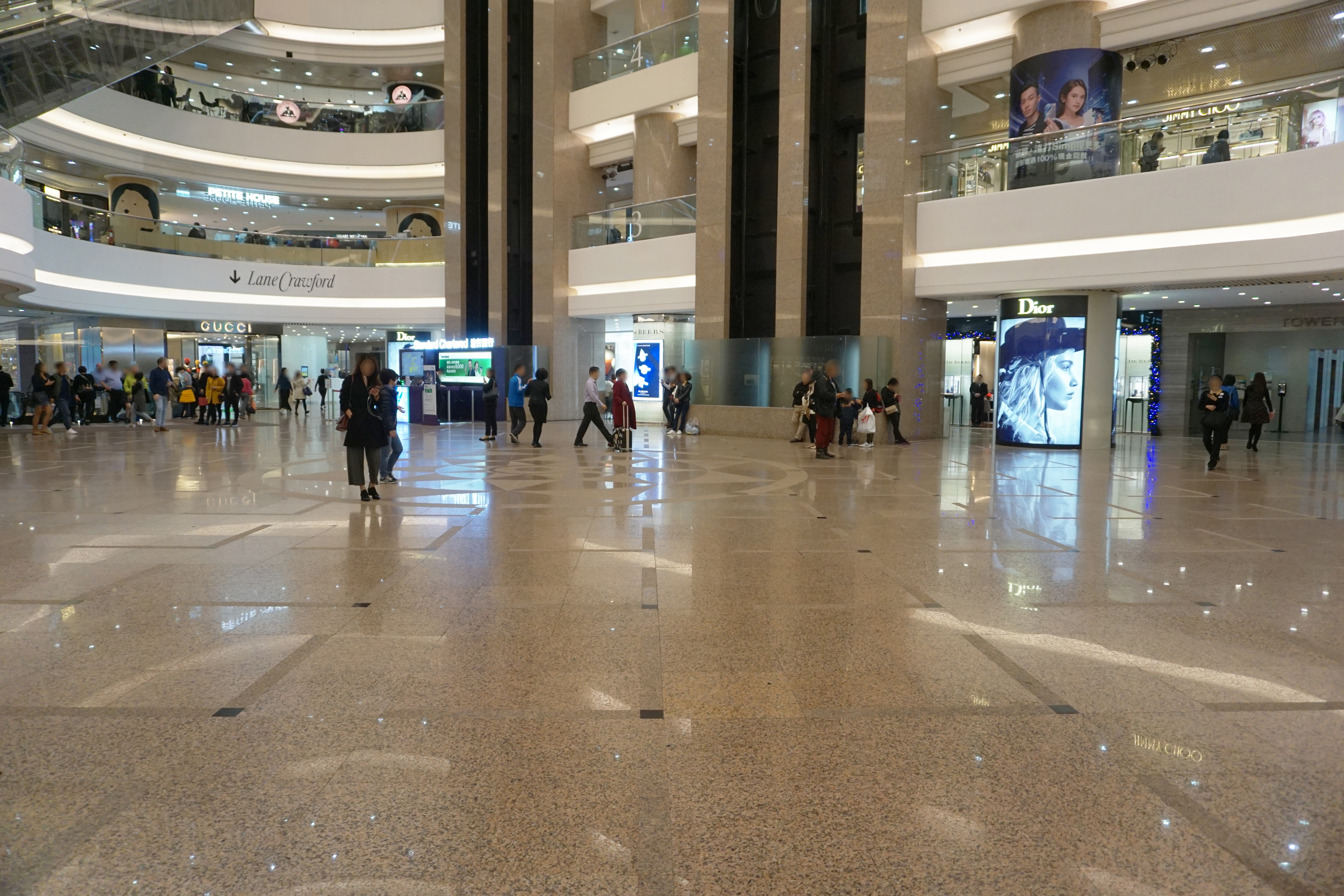 Times Square in Causeway Bay, Hong Kong.